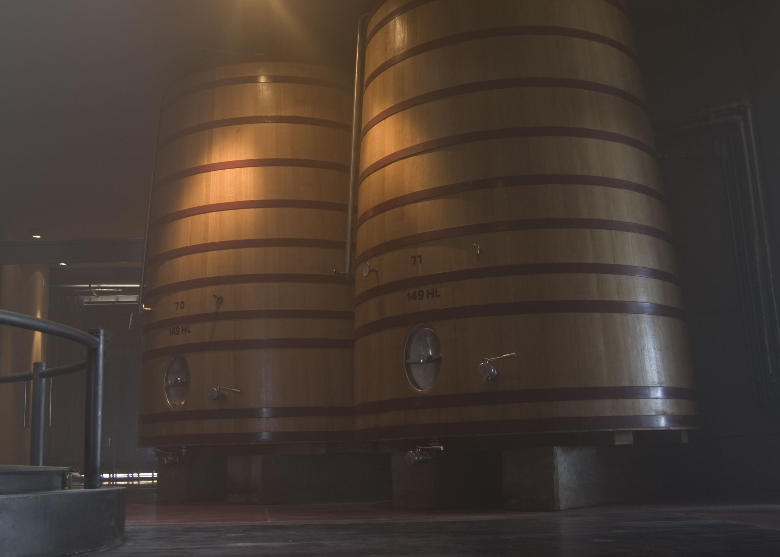 Large oak fermentation tanks from the OFournier winery in Mendoza Argentina